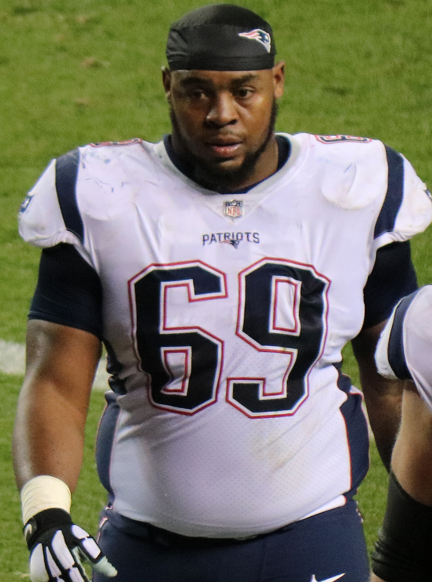 Shaq Mason, a National Football League player.